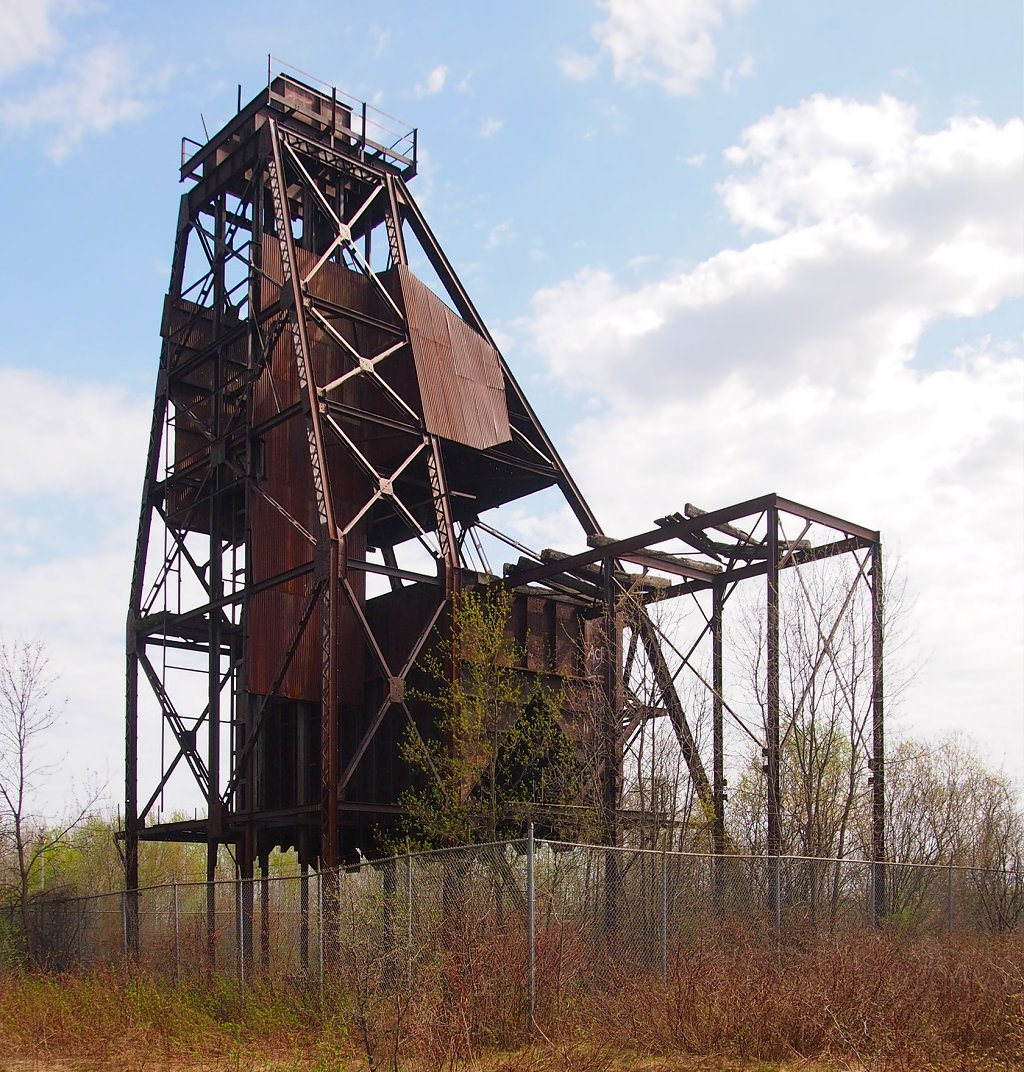 Bruce Mine Headframe from the Mesabi Trail outside Chisholm, Minnesota, USA. Viewed from the north-northwest.